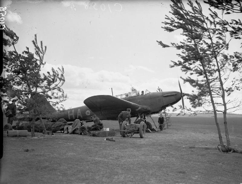 Royal Air Force- France, 1939-1940. Ground crew working on a Fairey Battle of No. 218 Squadron at Auberive-sur-Suippes. Note the attempt to camouflage the site with cut fir saplings